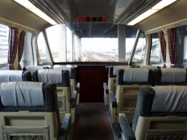 Nagoya Railroad Panorama Super（1000series）reserved seat car in the review room 名古屋鉄道 パノラマスーパー（1000系） 座席指定車の展望席の車内